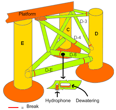 Columns of the oil rig Alexander L. Kielland - drawing shows fractures by fatigue and stormwaves